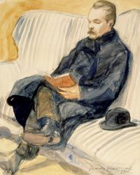 Portrait of Jalo Sihtola (1882-1969), industrialist and art patron